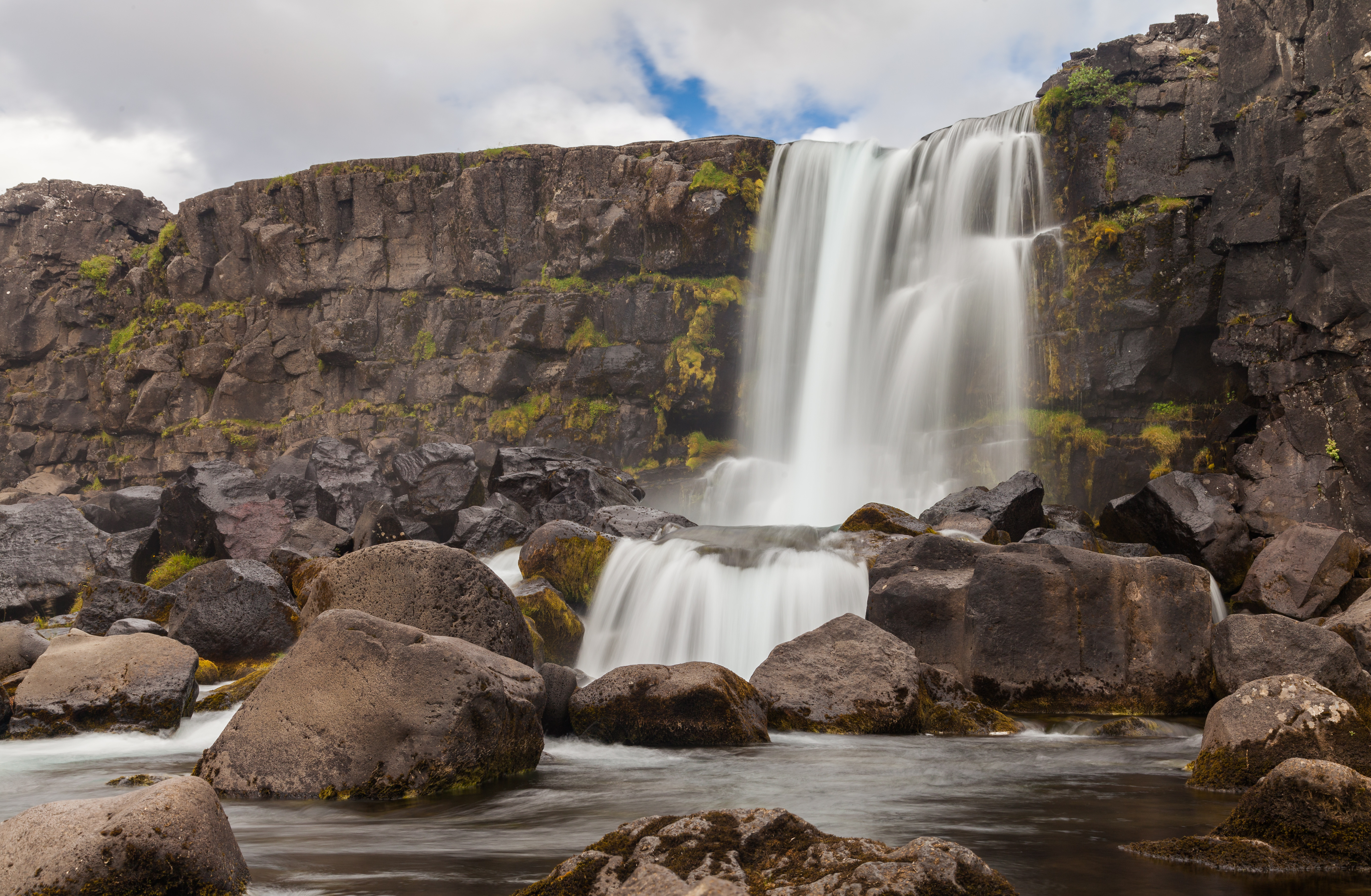 Öxarárfoss, Suðurland, Iceland